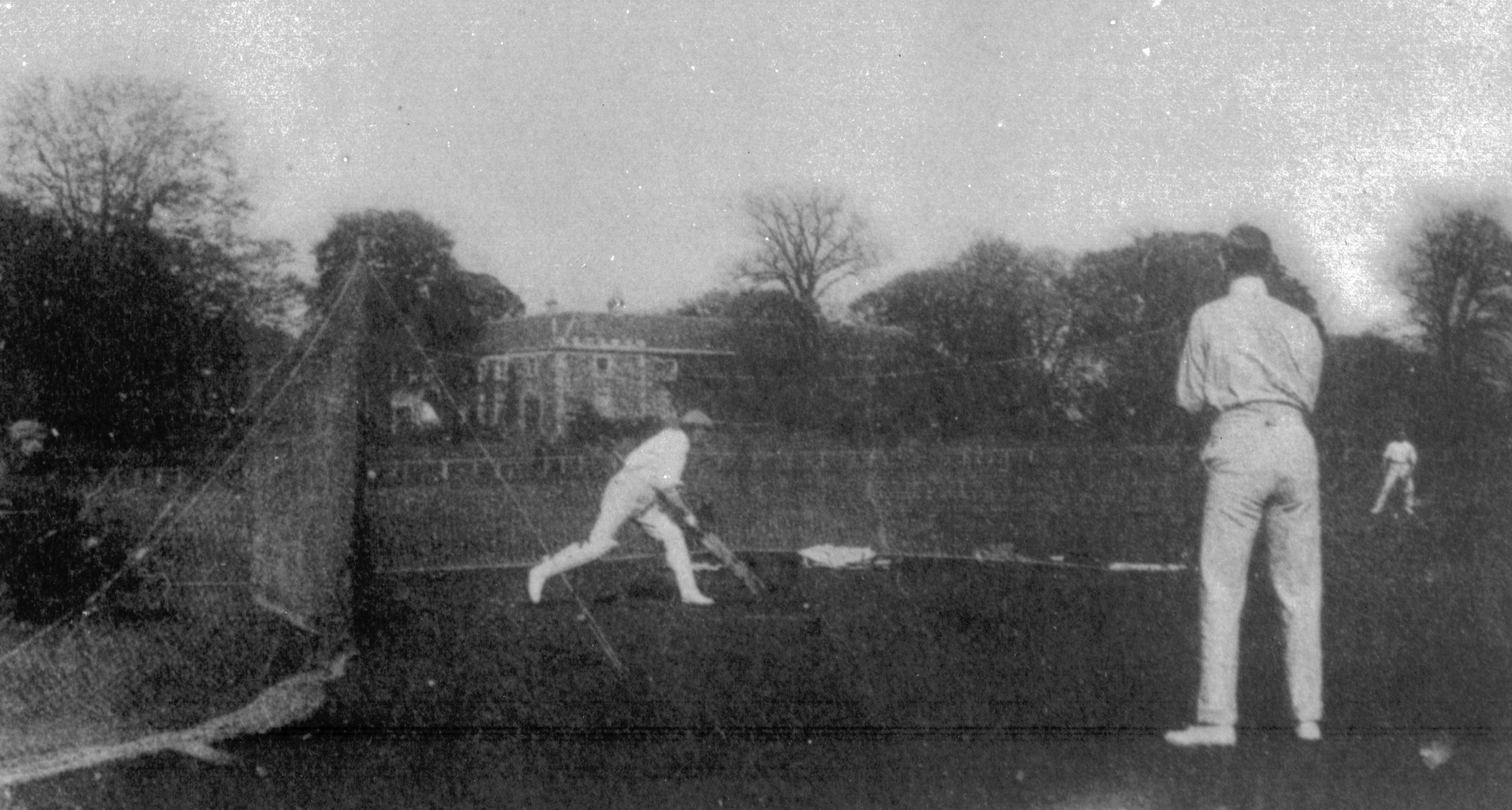 Cricket inn the nets at Eglinton in 1890